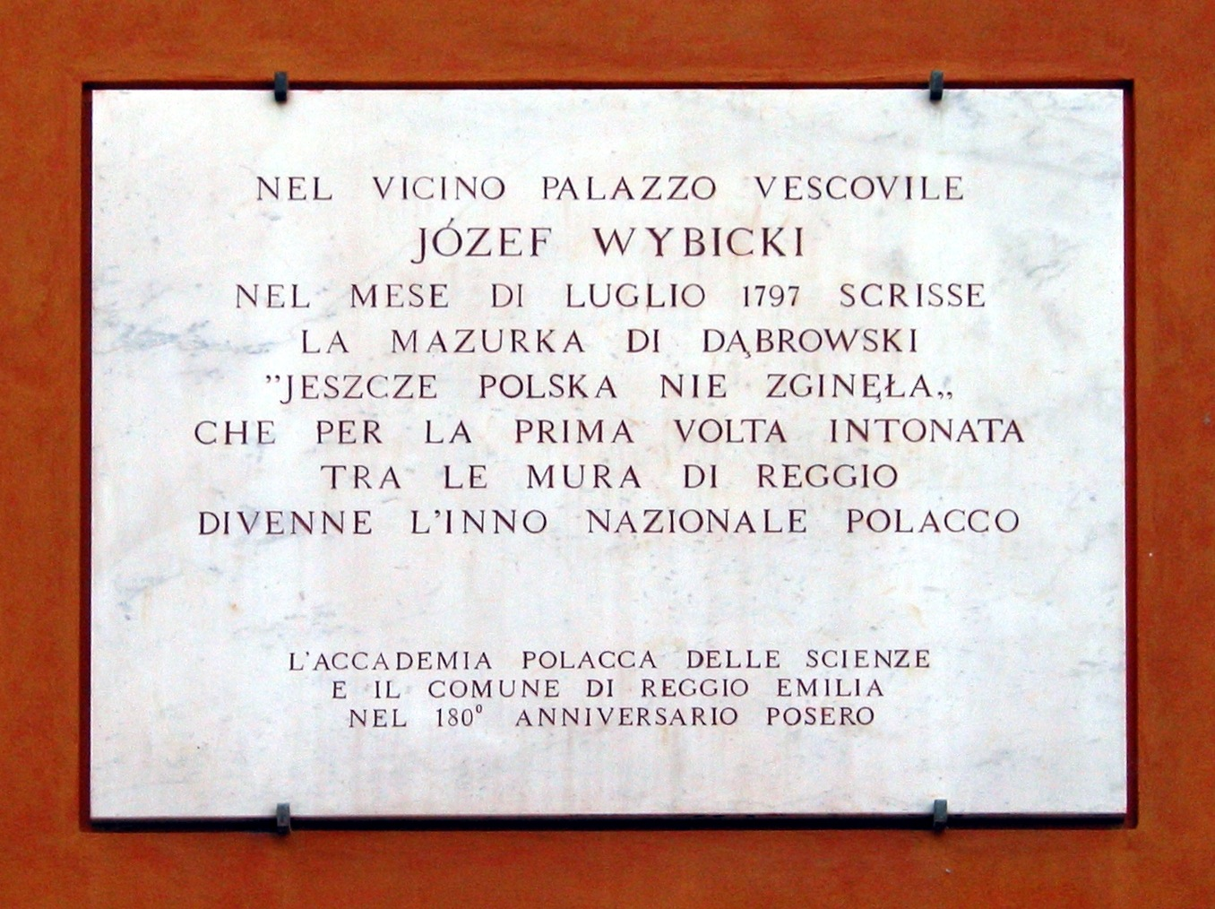 Plaque commemorating the composition of the Polish national anthem by Józef Wybicki in Reggio nell'Emilia, Italy, in July 1797